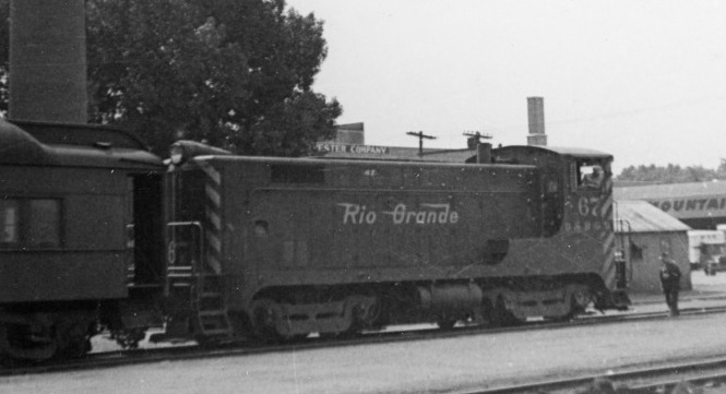 pictionid61550371 - catalogarray - titlearray - filenamemel0175.tif-Image from the Wagner Melching Collection showing the 483rd Bomb Group--Please tag these photos so that the information will be kept with our Digital Asset Management System---Repository: San Diego Air and Space Museum